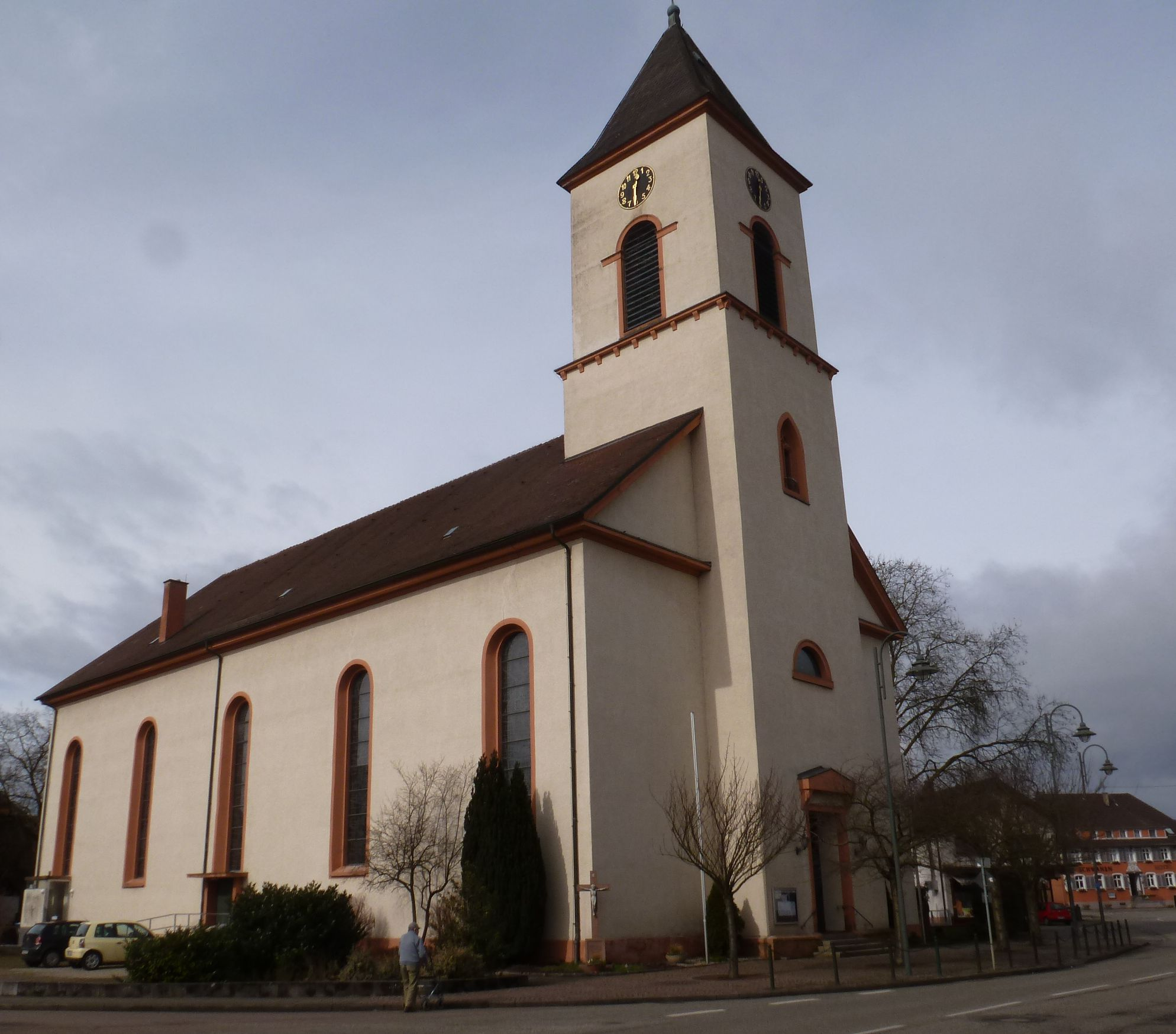 church St. Nikolaus (Ichenheim, Neuried, Baden-Württemberg, Germany) from south-east